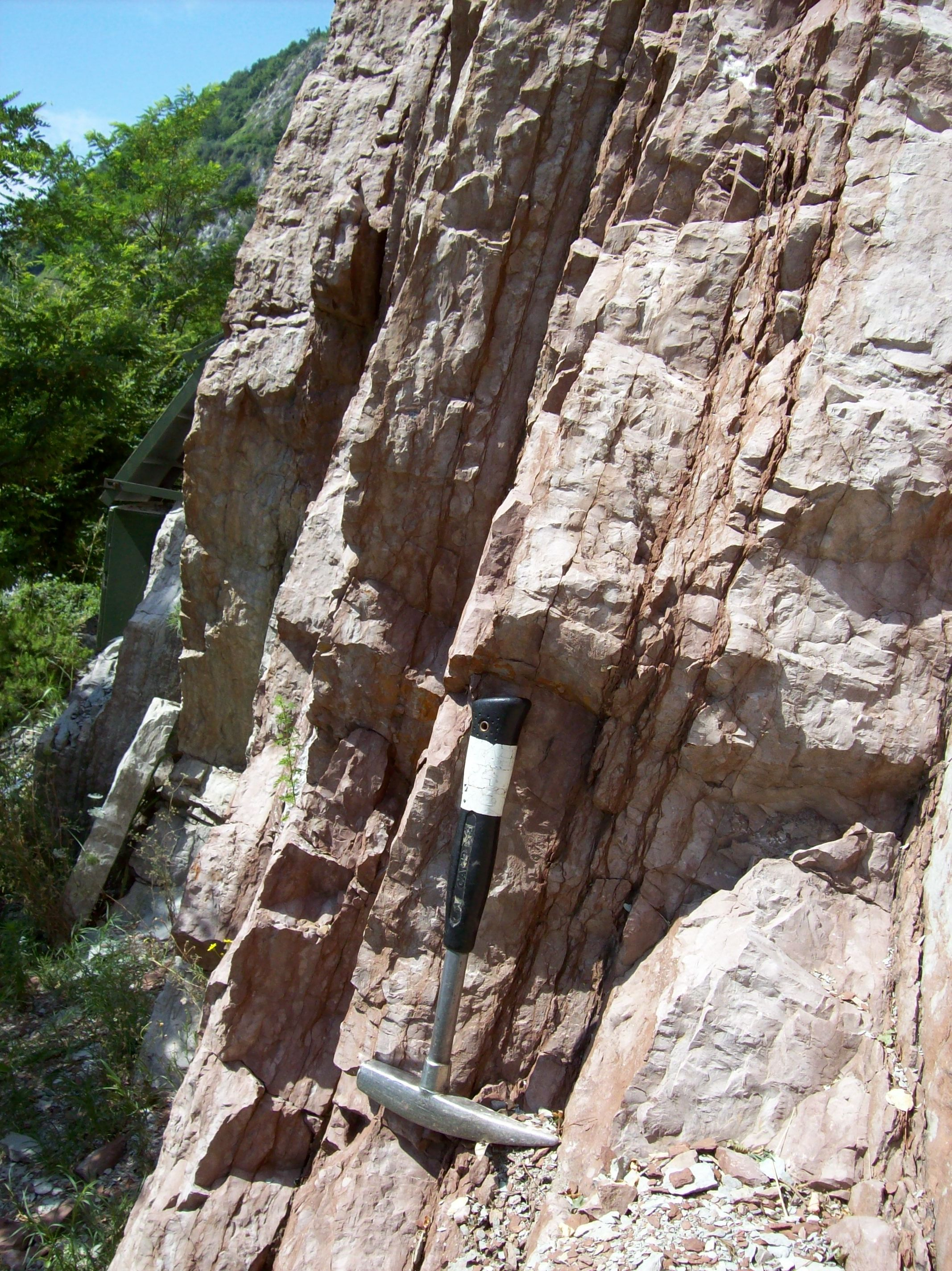 Ammonitico Rosso lithofacies from Early Jurassic (Late Pliensbachian) of northern Lombardy(Southern Calcareous Alps).. Red-greenish nodular marly limestones.